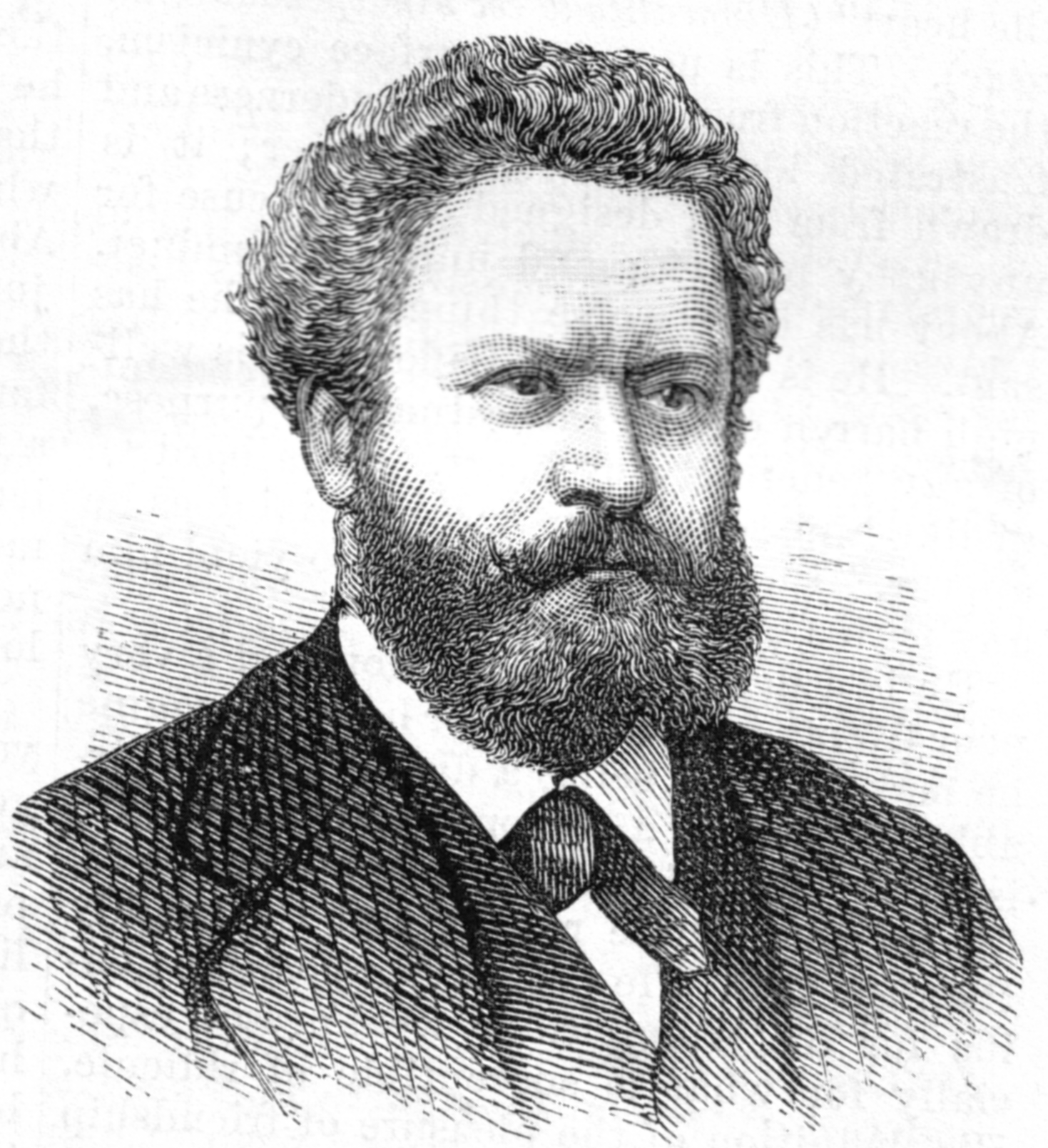 Engraving of Edmond About.